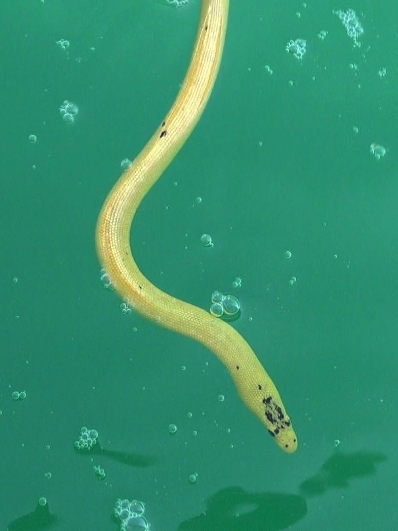 Pelamis platura, yellow seasnake, completely yellow form = Hydrophis platurus xanthos BESSESEN & GALBREATH 2017 . - Southern Costa Rica, Golfo Dulce near Golfito.